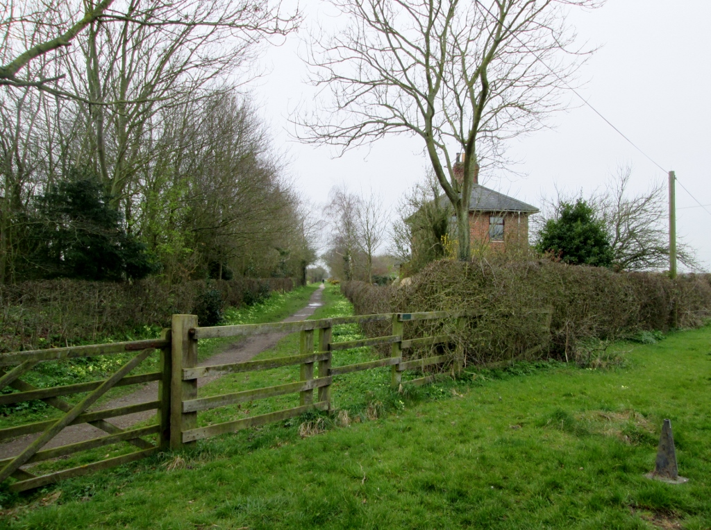 Hornsea Rail Trail at the former Wassand Station, Goxhill, East Riding of Yorkshire, England.The station was at first called Goxhill but was changed to Wassand in 1904 to avoid confusion with Goxhill in North Lincolnshire. Closure was in 1960. Line side is covered with primroses.